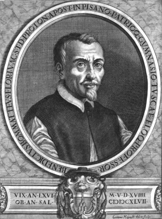 The Italian writer Benedetto Buommattei